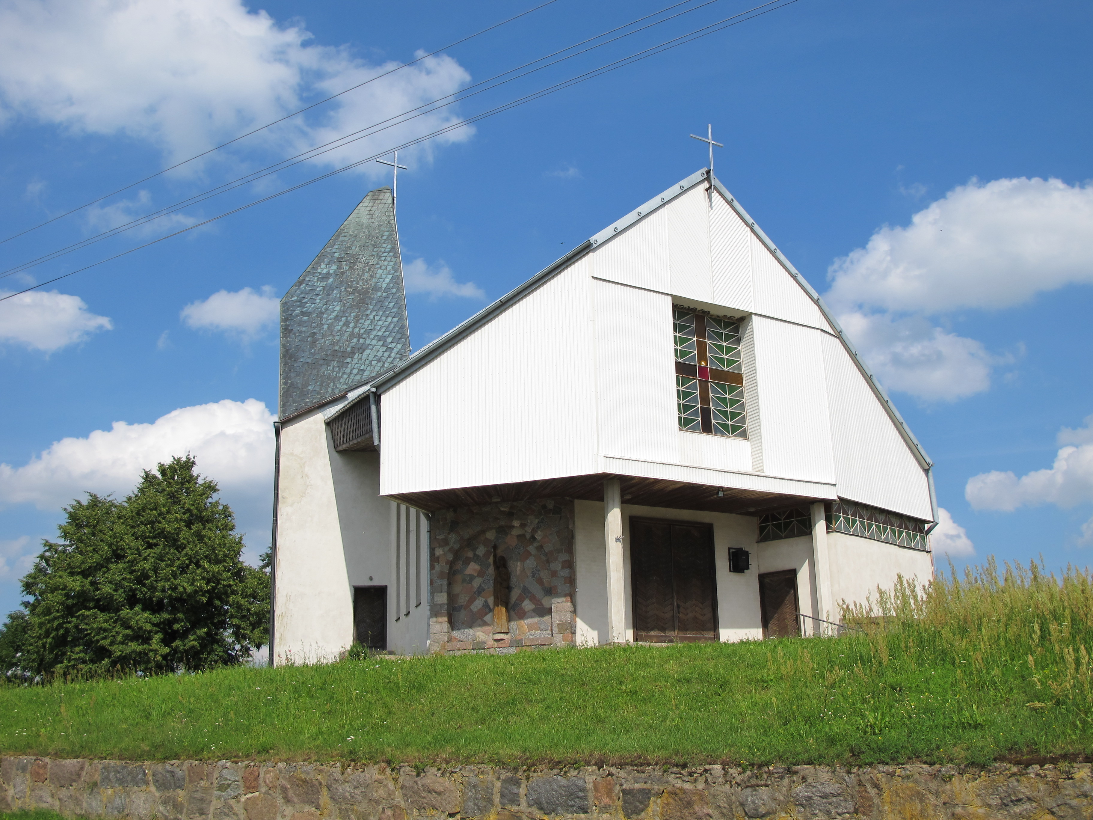 Nativity of the John the Baptist chapel in Filipy, gmina Wyszki, podlaskie, Poland